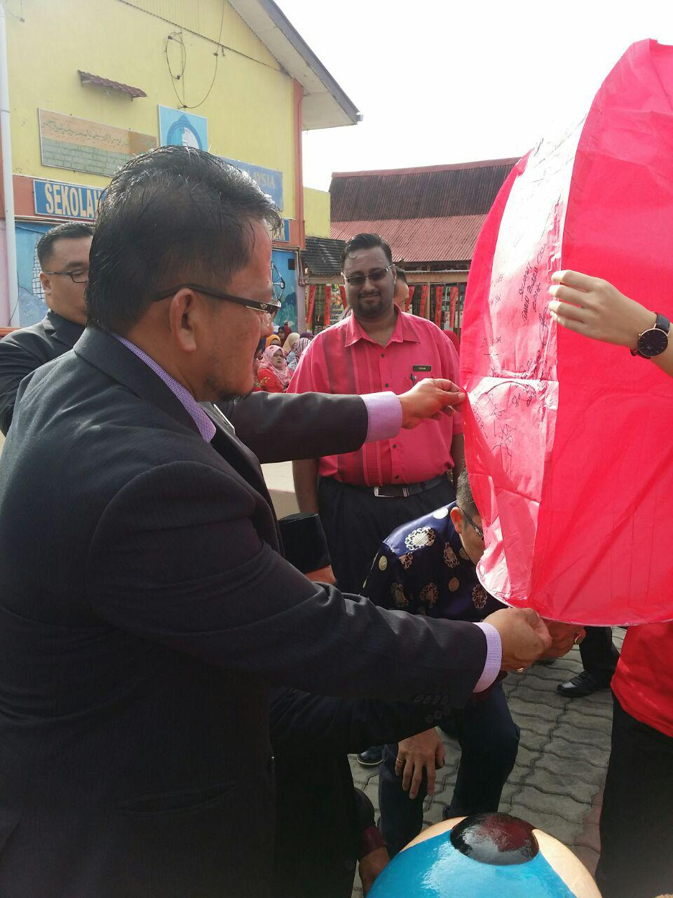 CNY 8